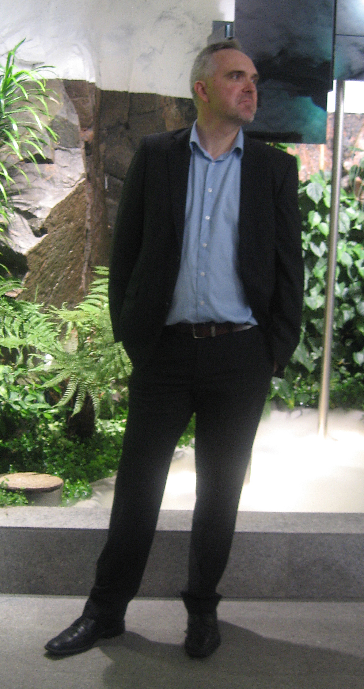 Jon Karlung, CEO of Bahnhof AB (Stockholm, Sweden).